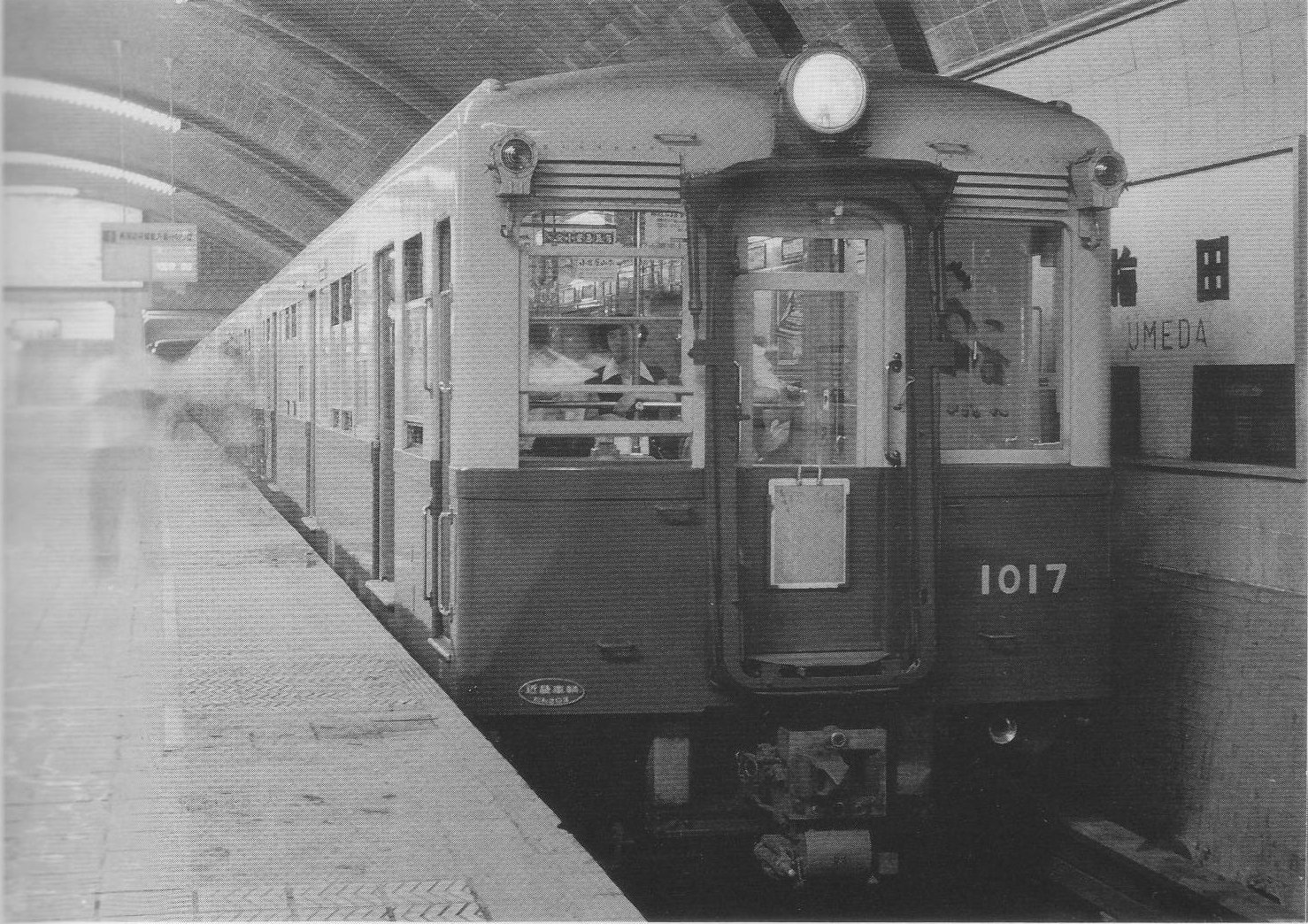 Osaka Municipal Subway #1017. taken in 1955.